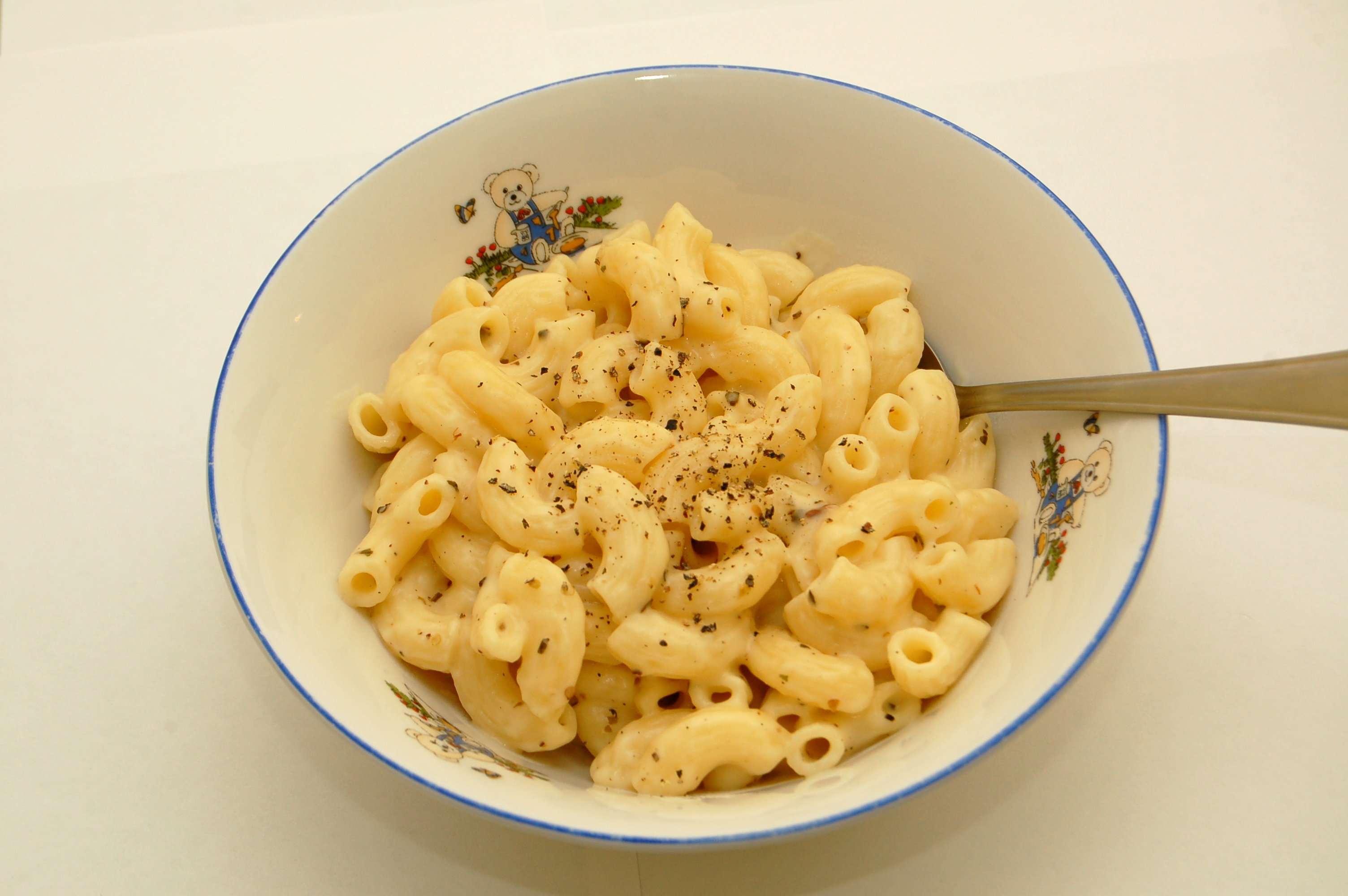 Home made macaroni and cheese, with some dried herbs and grounded pepper.